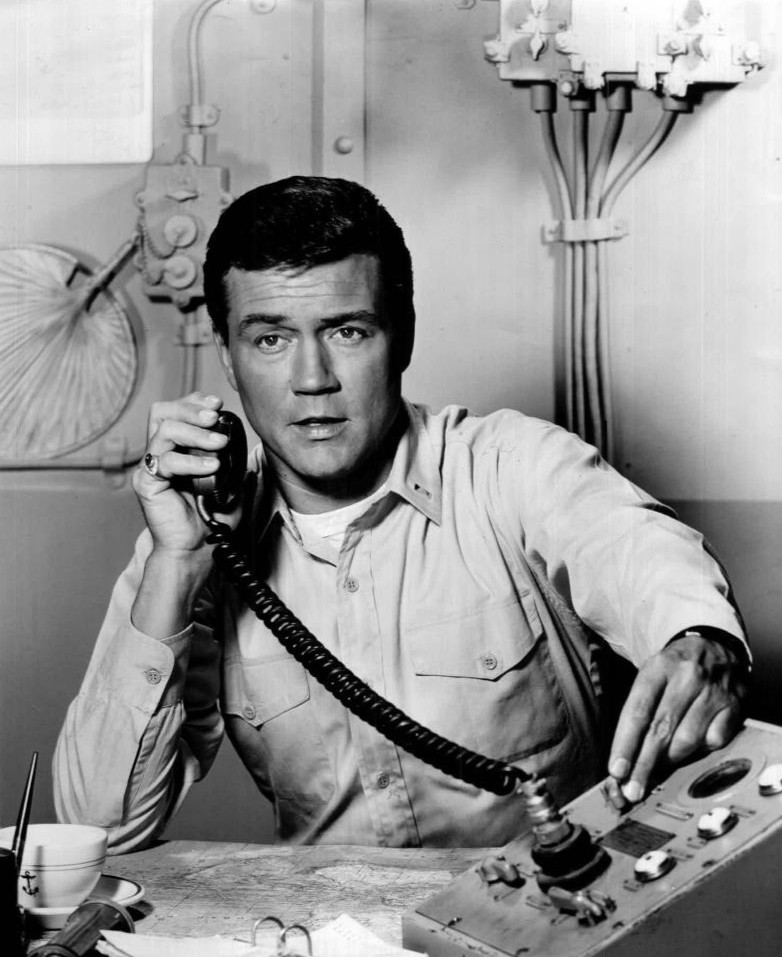 Photo of Roger Smith as Mister Roberts from the television program of the same name.